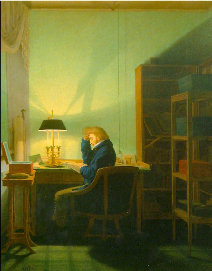 "Man Reading by Lamplight". The room is lit by a Bouillotte lamp first used in the late 1700s in France to provide light for Bouillotte players.